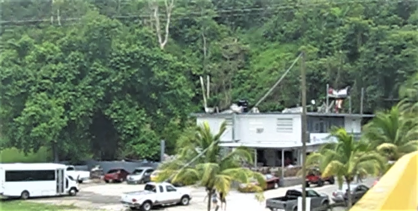 La Playita Restaurant in Barrio Río Grande, in Morovis, Puerto Rico Located at Carr 155 km 42.6 barrio Río Grande Sector La Playita